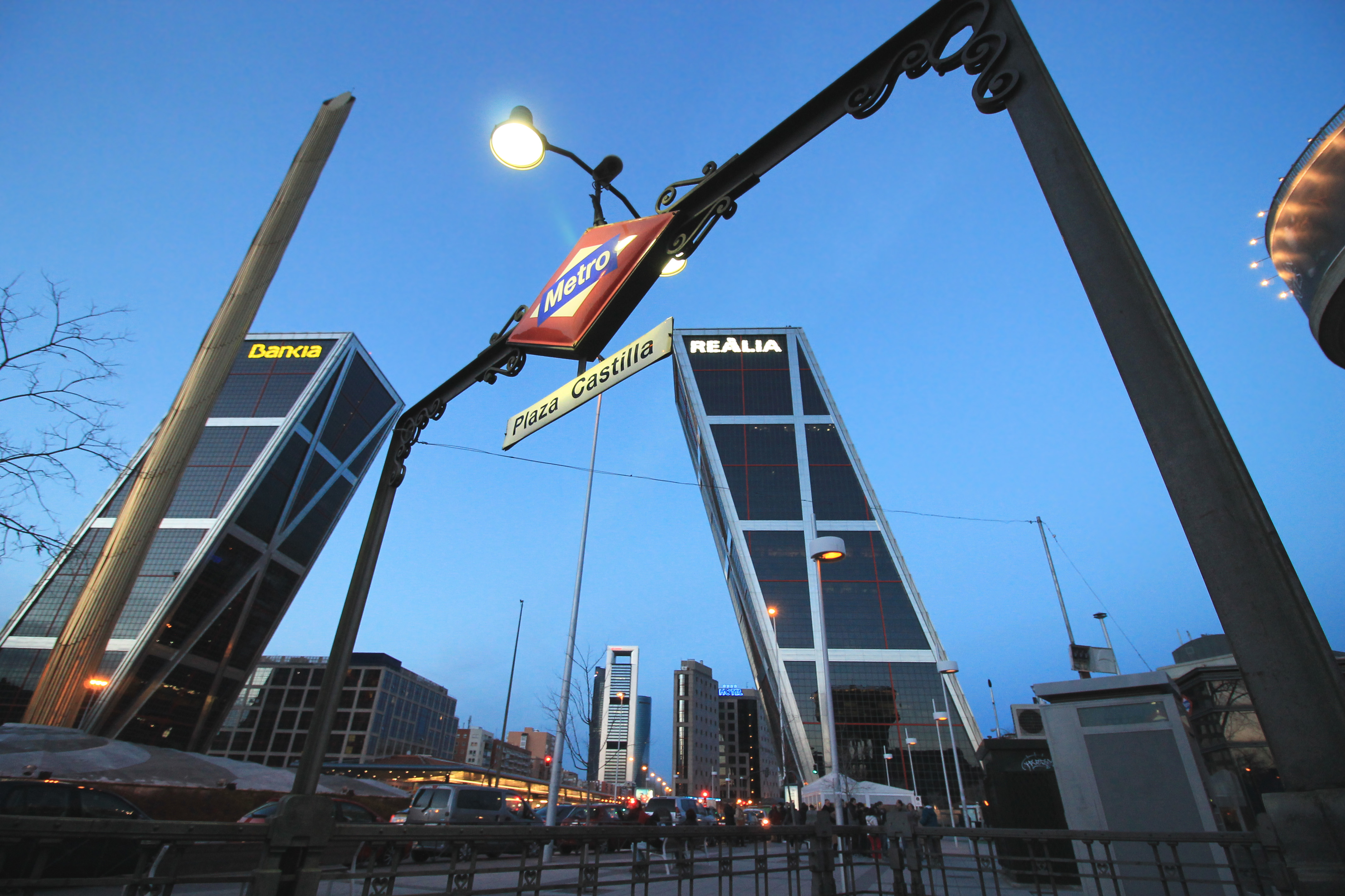 Entrance of Plaza de Castilla metro station in Madrid (Spain). Background: Gate of Europe.